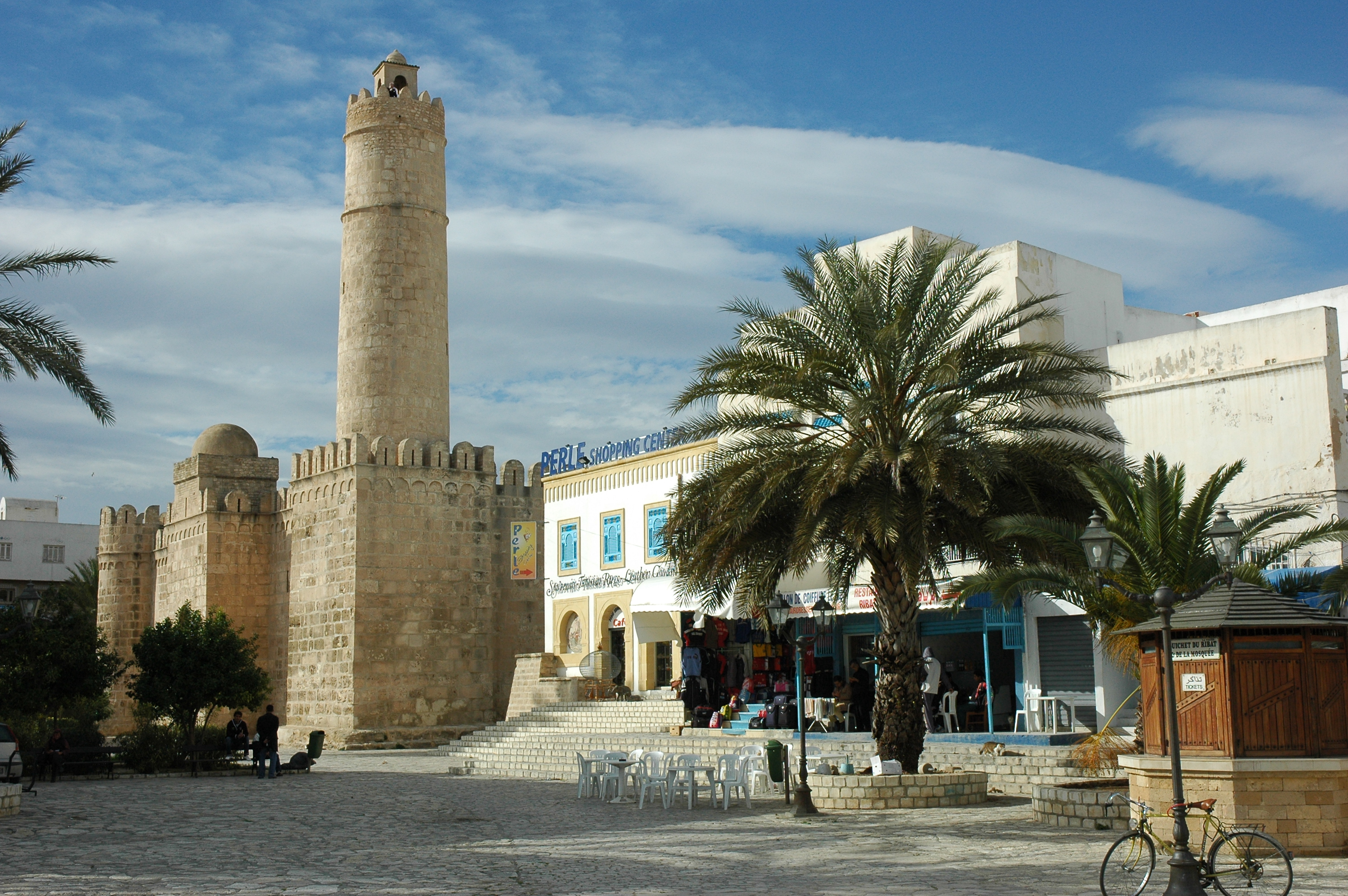 Sousse in Tunisia